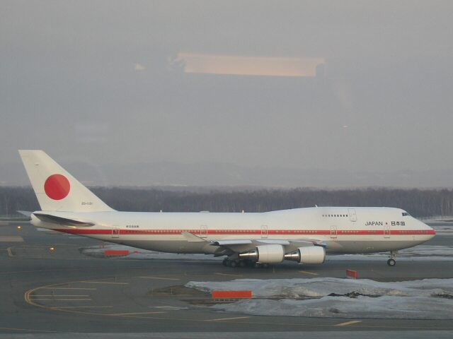 Government aircraft of Japan stands by at New Chitose Airport to go to Iraq.